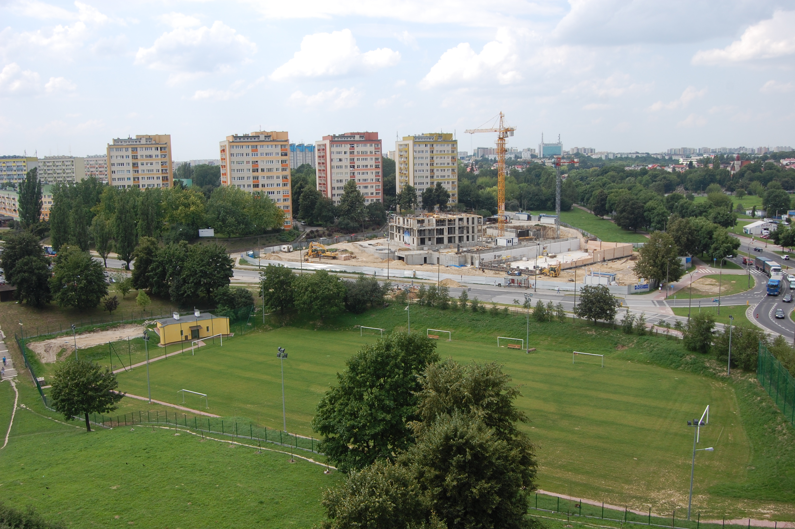 MKS Kalina municipal stadium in Lublin, Poland. "Perły Kaliny" apartment blocks under construction.